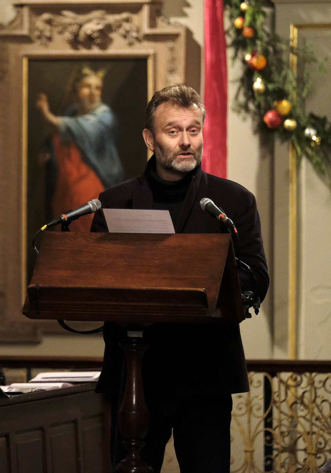 Hugh Dennis speaking in support of the National Churches Trust.